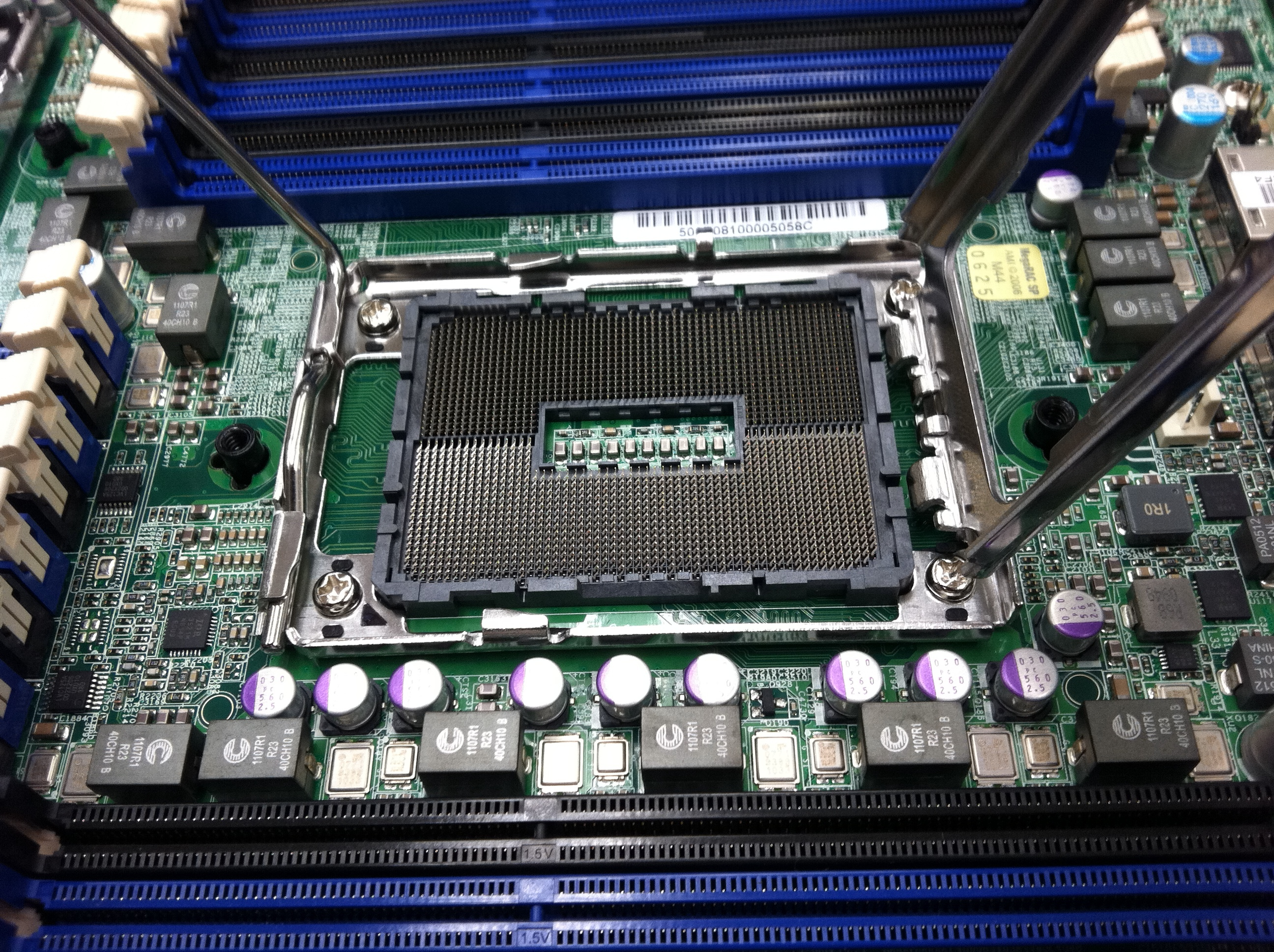 This is an image of the Socket G34 CPU interface on a Tyan S8812 motherboard.